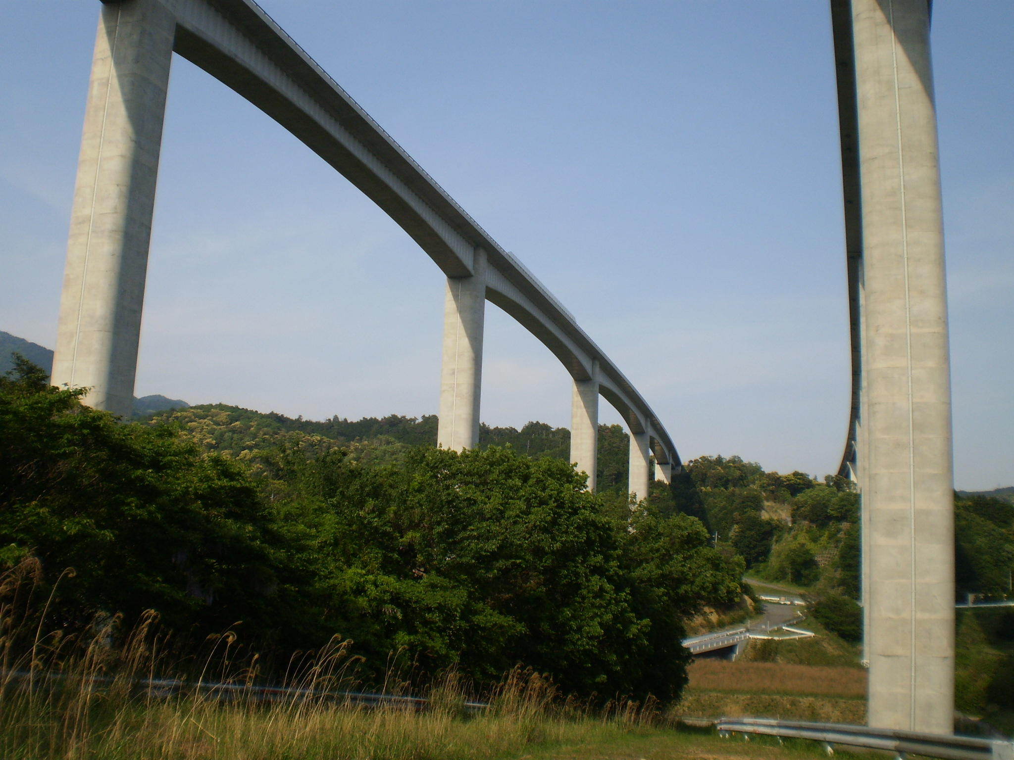 Ikeyama Viaduct on the Shin-Meishin Expressway in Asakayamacho, Kameyama City, Mie Prefecture, Japan